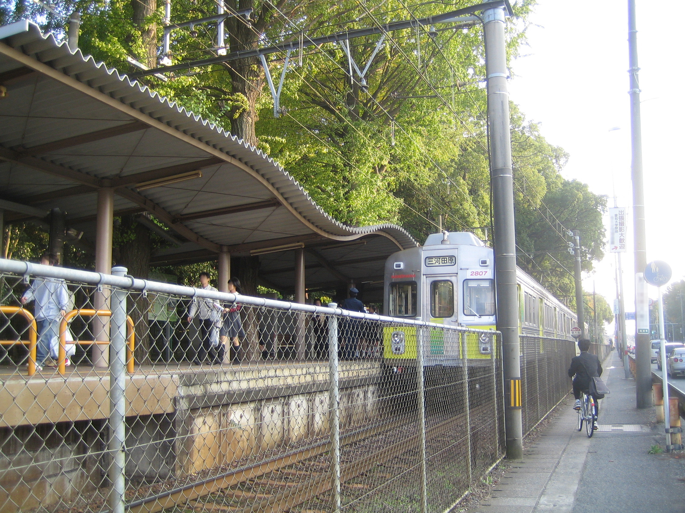 Aichi Daigaku-mae Station (愛知大学前駅), at Kitaoka, Toyohashi, Aichi, Japan